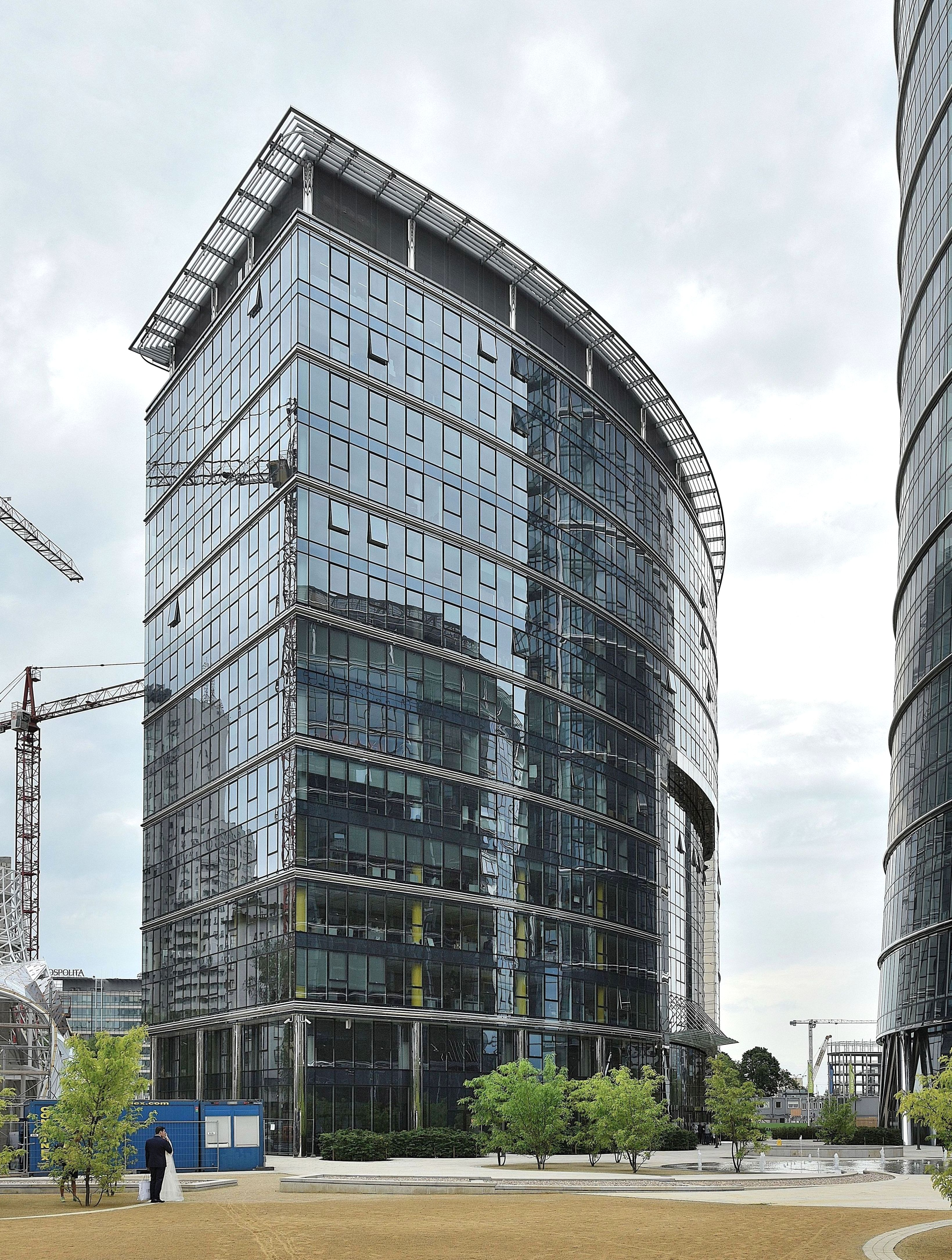 Side builiding (address: 6 European Square) of the Warsaw Spire office office complex in Warsaw, seat of, inter alia, Frontex agency